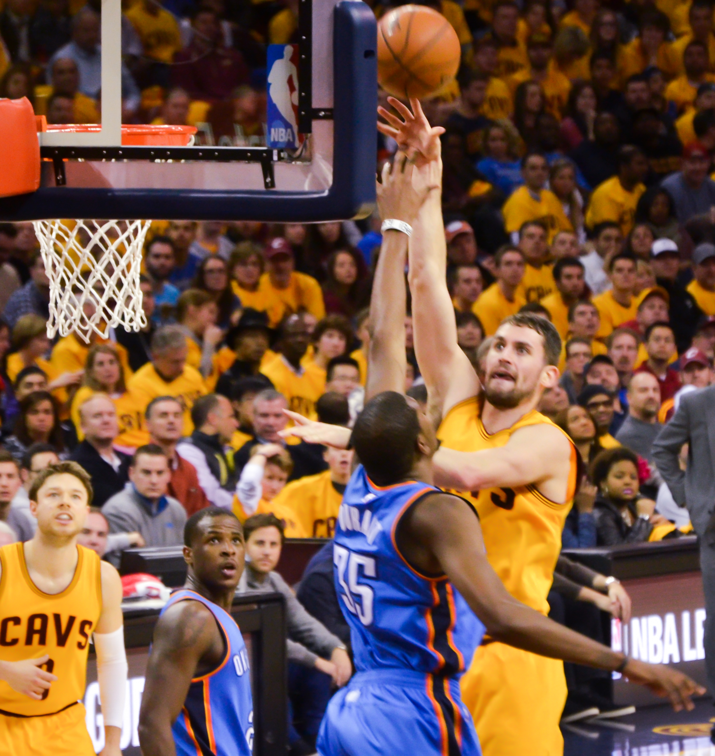 Kevin Love of the Cleveland Cavaliers shoots against Kevin Durant of the Oklahoma City Thunder